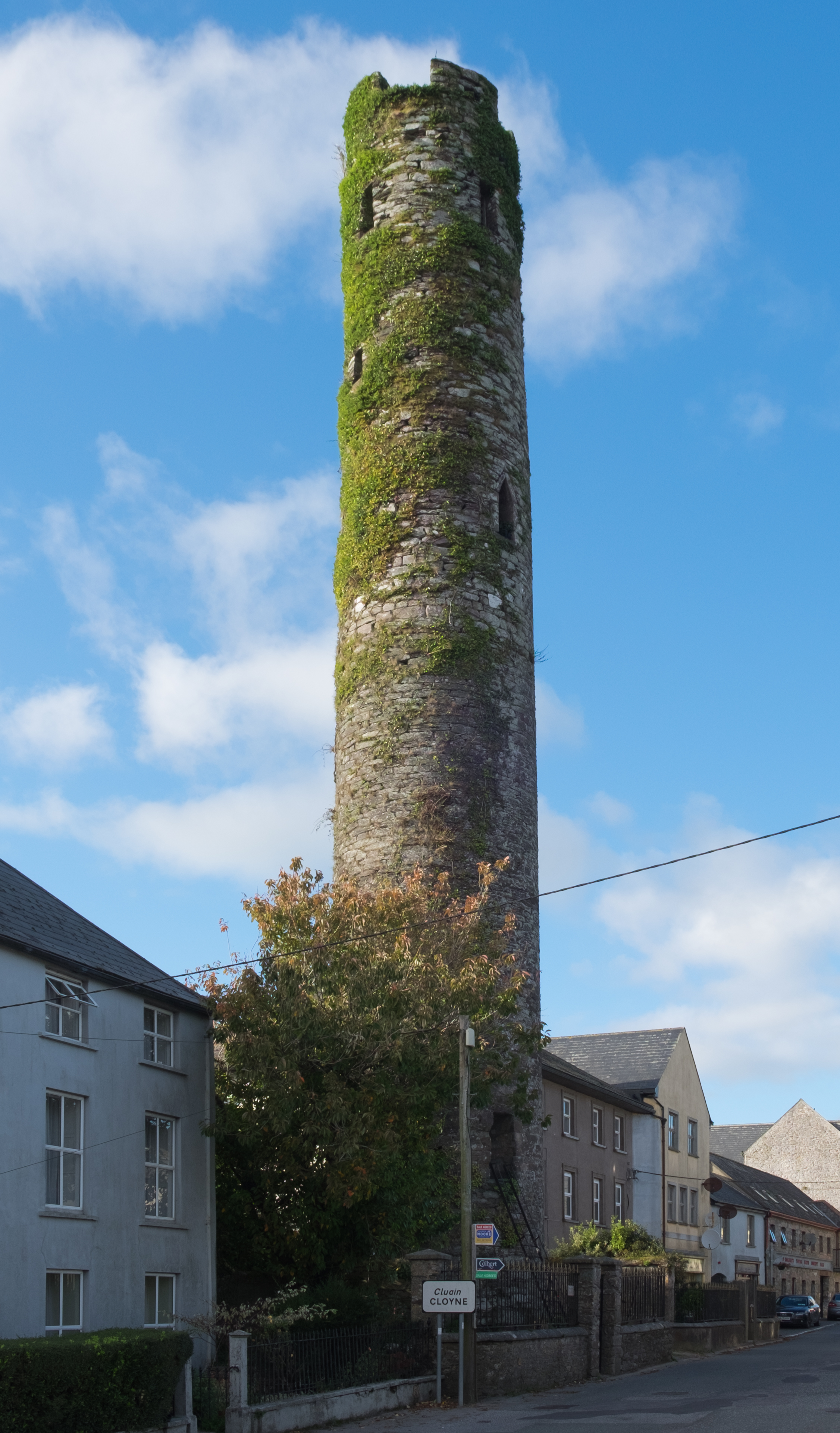 The Round Tower of Cloyne, County Cork, Ireland. This 30-metre (100-foot) 10th-century tower is listed as a National Monument in Ireland. This object is indexed in the Archaeological Survey of Ireland under SMR No. CO088-019004-Geographic information system of the National Monuments Service: Historic Environment Viewer – Database record.